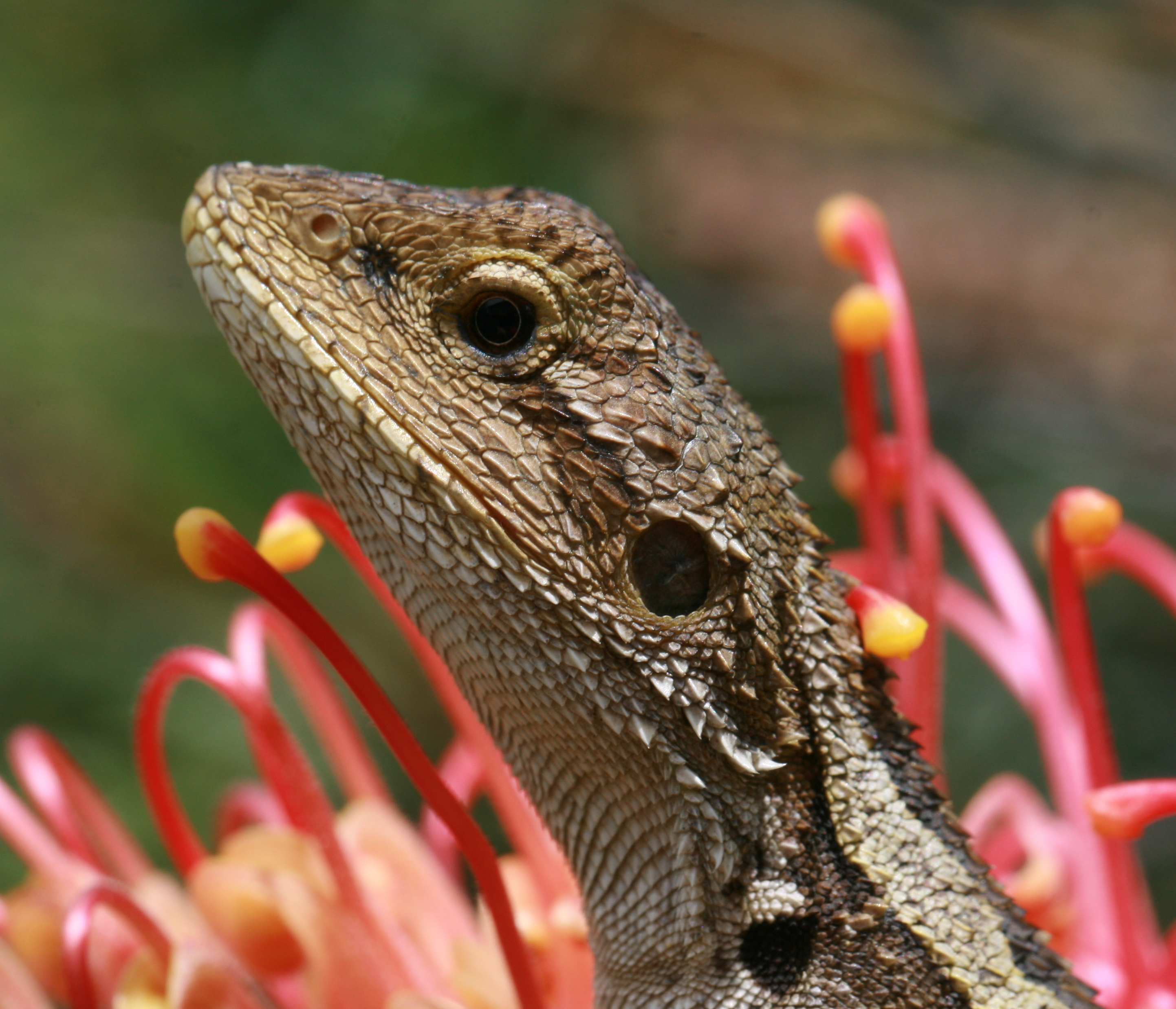 A Jacky Lizard (Amphibolurus muricatus) in Kioloa, New South Wales, Australia.